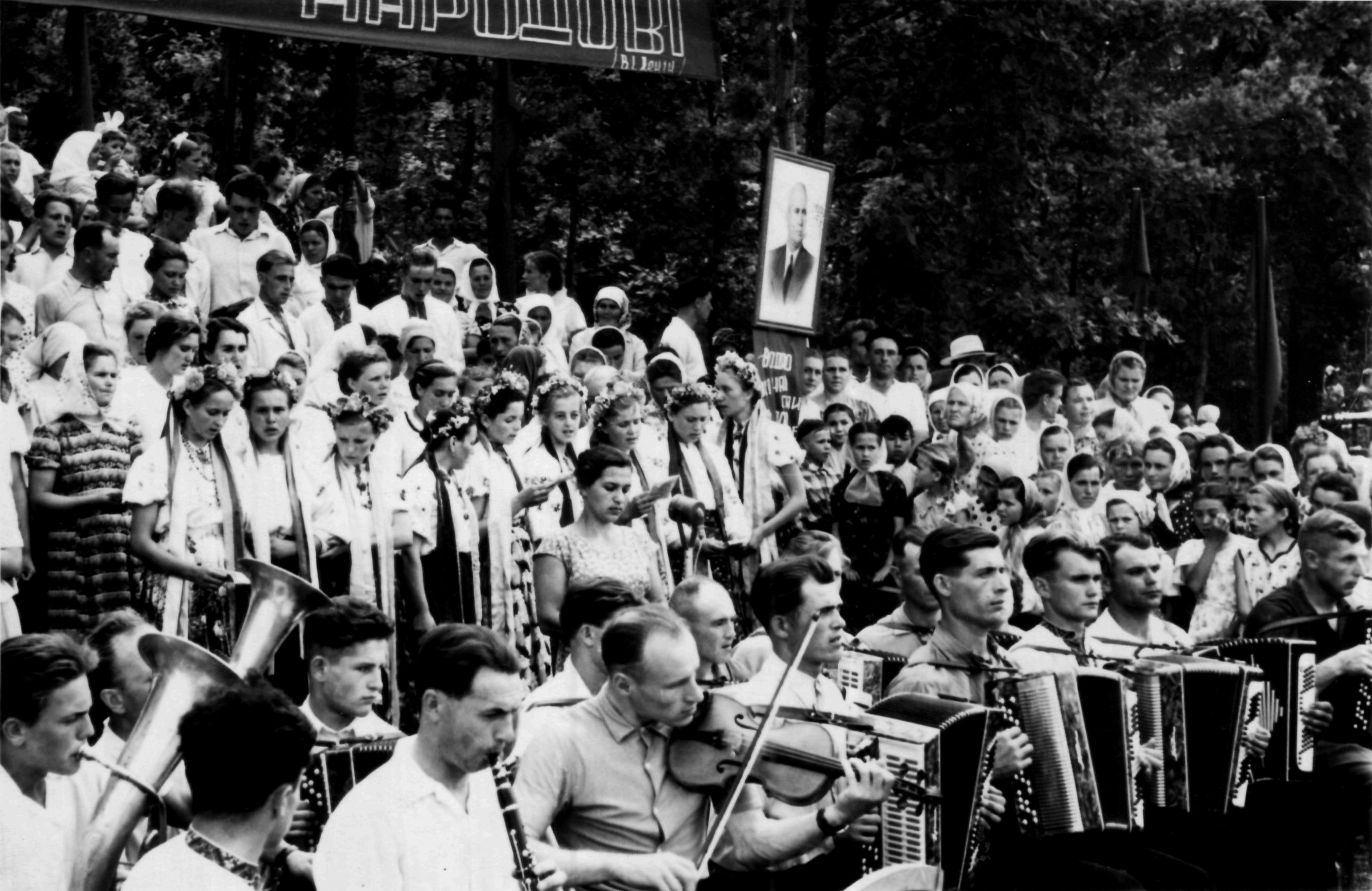 Song Festival of Gogol district, Poltava region. 1962 Sluchevske tract, near the village Shishaki.